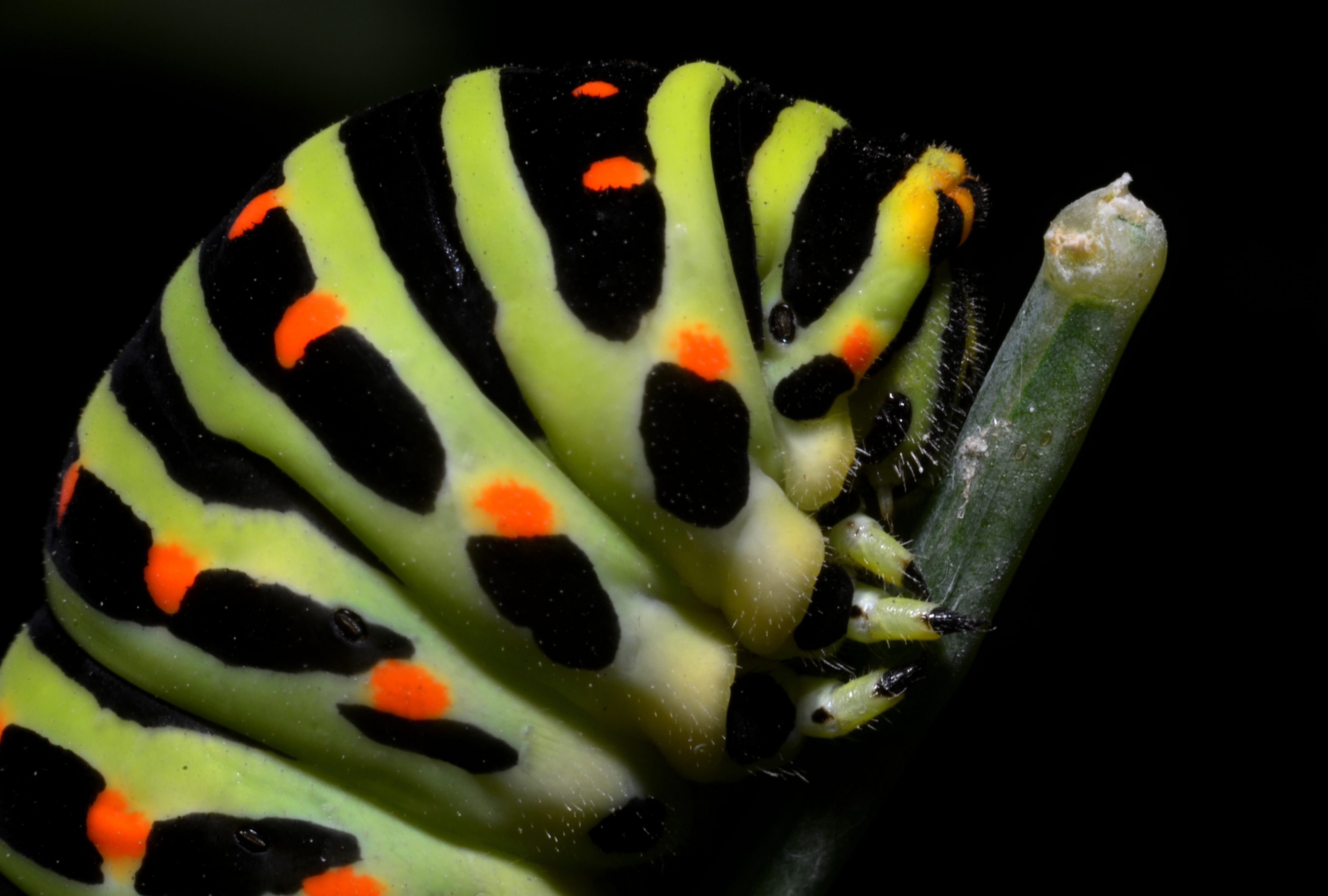 Old World swallowtail, head of caterpillar. Rypin County, north-central Poland, allotment